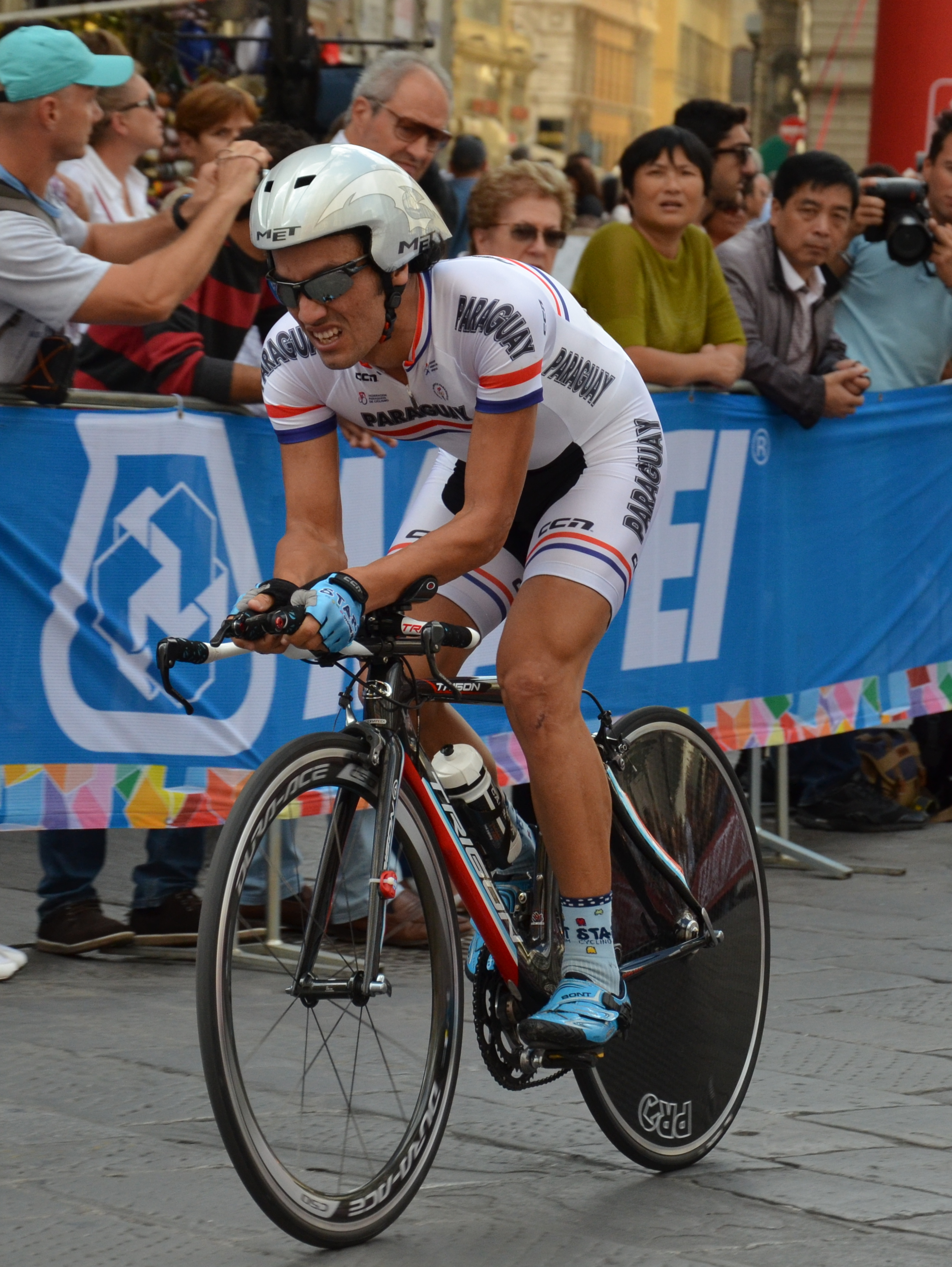 Mino Gustavo Uci Road World Championships Toscana Italy 2013 Florence